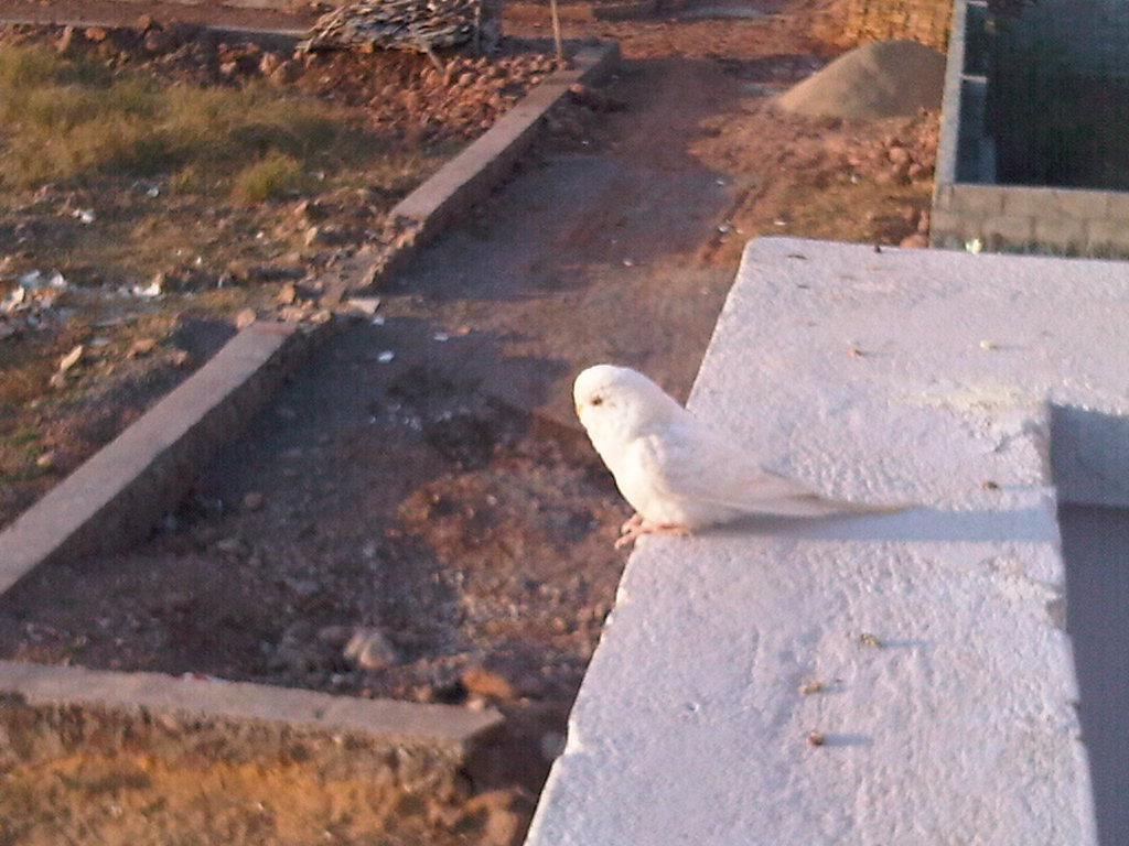 An escaped pet Budgerigar resting in the warm evening glow.